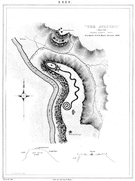 Drawing of the Serpent Mound Archaeological sites in Ohio